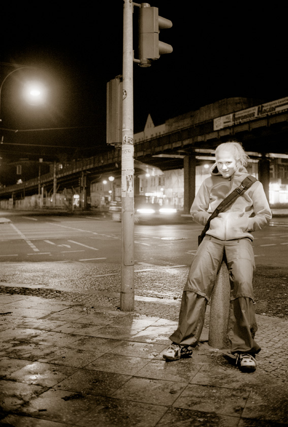 Hamburg 1999